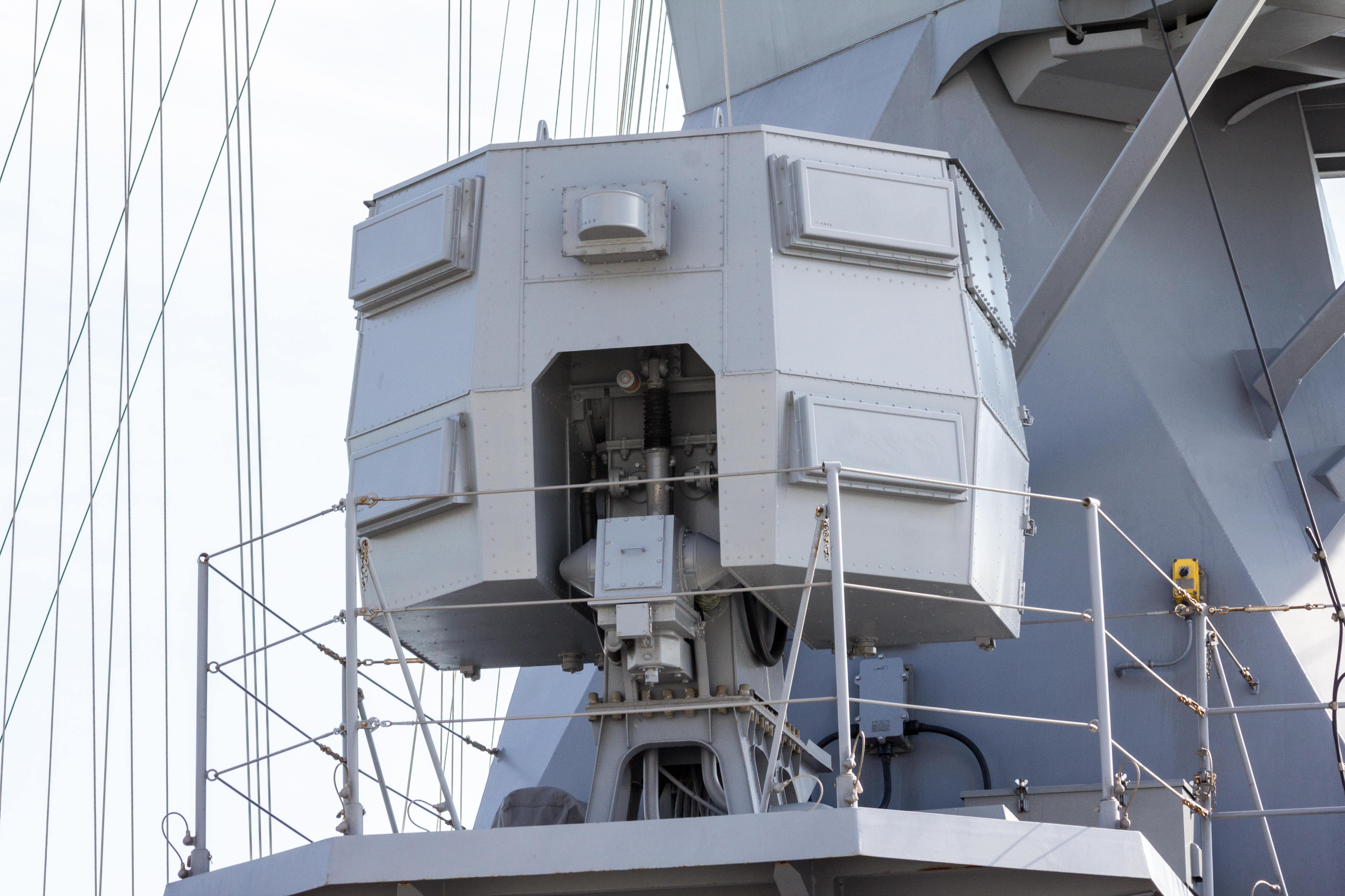 NOLQ-3D (ECM) on JDS DD-116 Teruzuki at Harumi-pier, Tokyo (2013 Dec 1) Canon EOS 60D